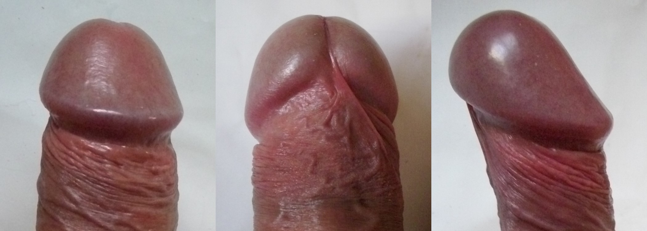 The 3-View (front view,back view,lateral view) of Glans Penis(uncircumcised).